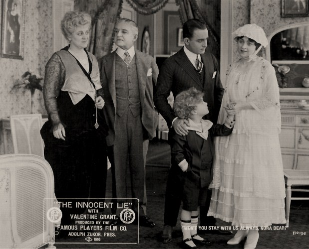 Left to right: Helen Lindroth, Frank Losee, William Courtleigh, Jr., and Valentine Grant (child actor unknown) in The Innocent Lie (1916) - publicity still